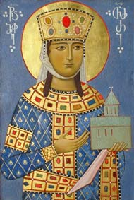 Modern Orthodox Icon of Queen Tamar